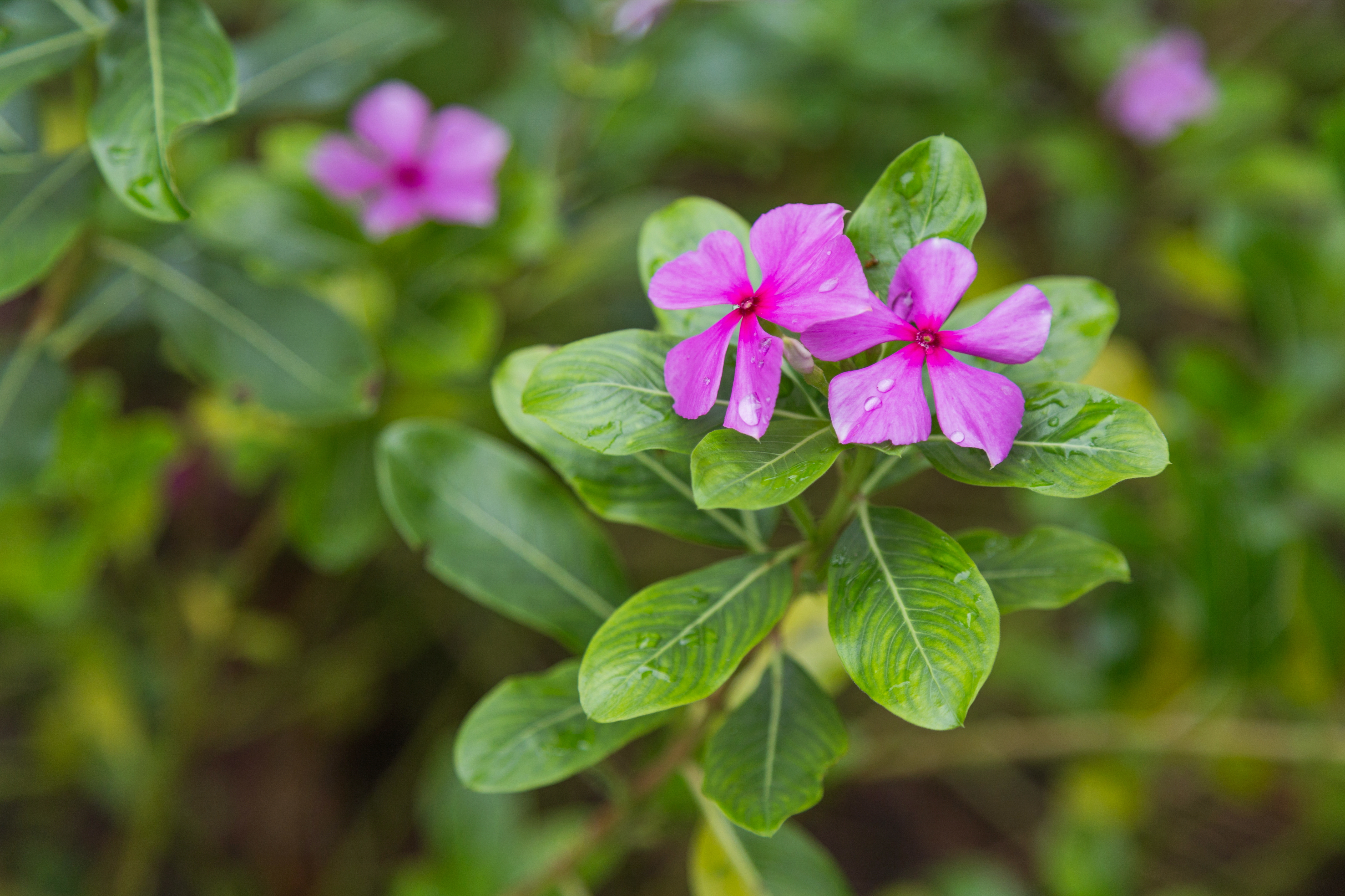 Catharanthus roseus. Healing Garden. Botanic Gardens. Central Region, Singapore.